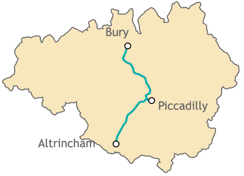 Outline of the route of the original phase of Manchester Metrolink prior to extension